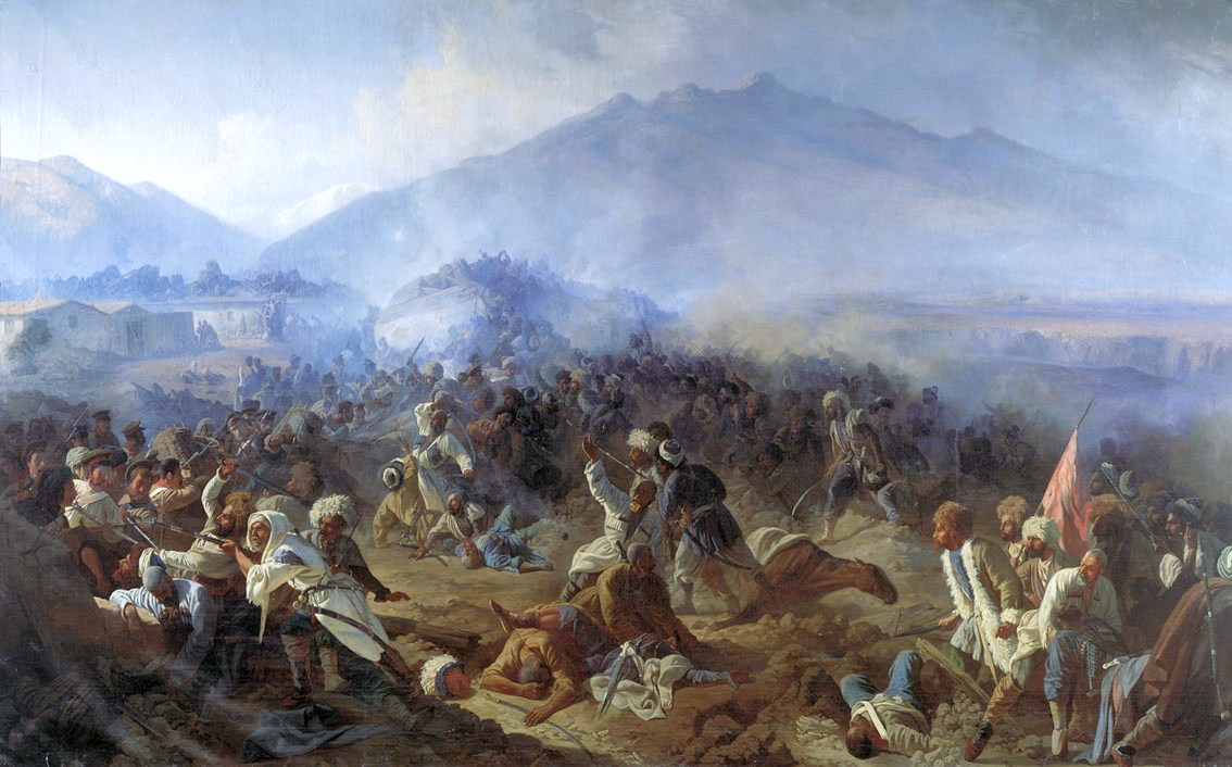 The picture "Storm of the fortress of Akhty in 1848." place of action is near lezgian mountain town Akhty 14-22 sept. 1848. Imam Shamil's arms against russian forces.